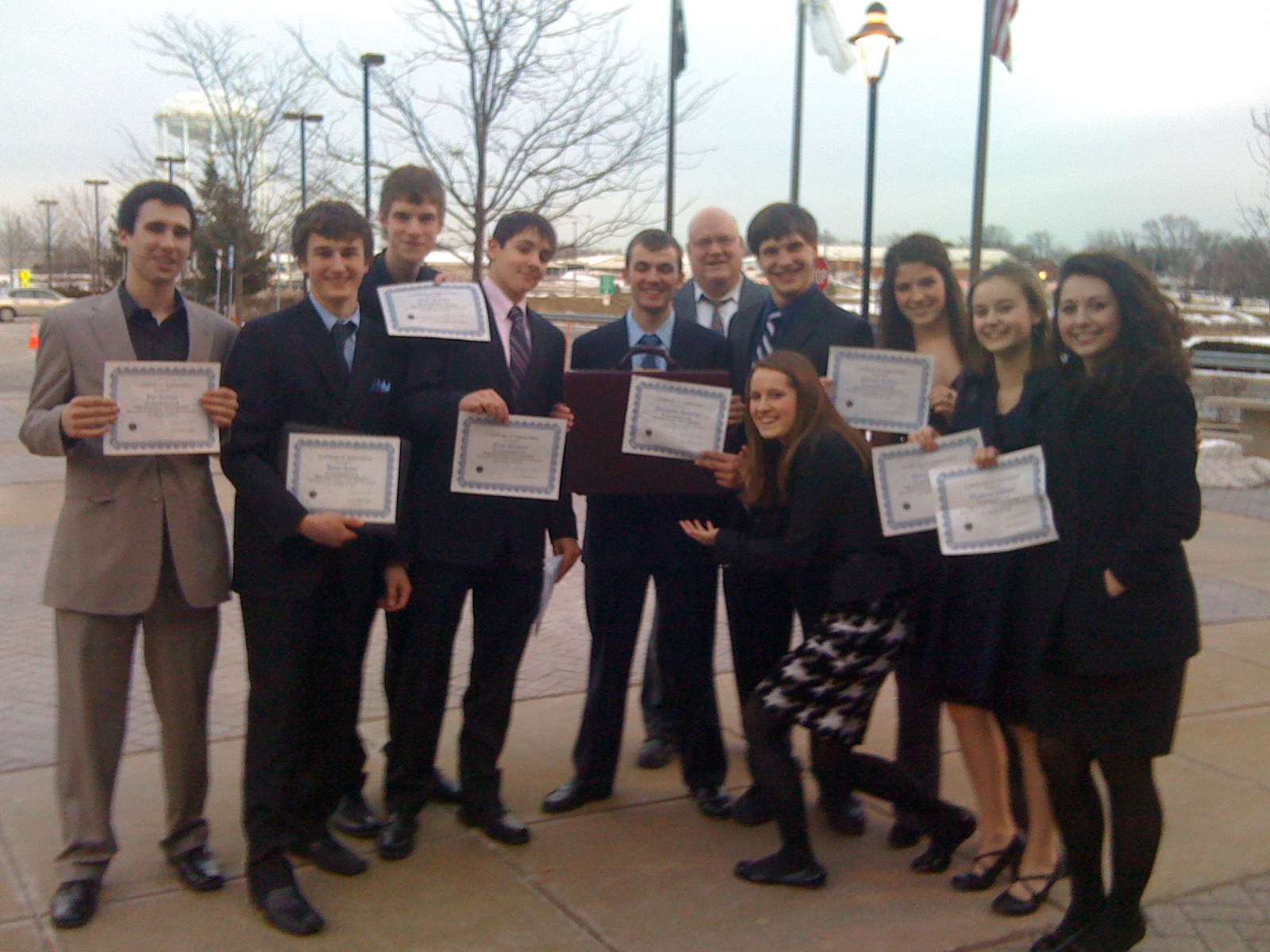 Members of the Benet Academy Law Club hold their award certificates after participating in a mock trial at the DuPage County Courthouse in Wheaton, Illinois.